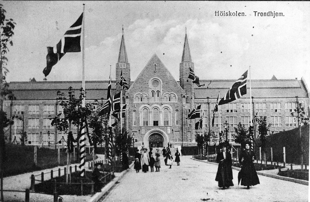 The opening day of "Den tekniske høiskole", later Norge tekniske høgskole; NTH (=The Norwegian Institute of Technology). The building is the main building of the institute, situated on what is now called Campus NTNU Gløshaugen, Trondheim. Architect: Bredo Greve.